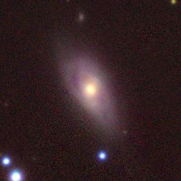 PanSTARRS image of NGC 3307.